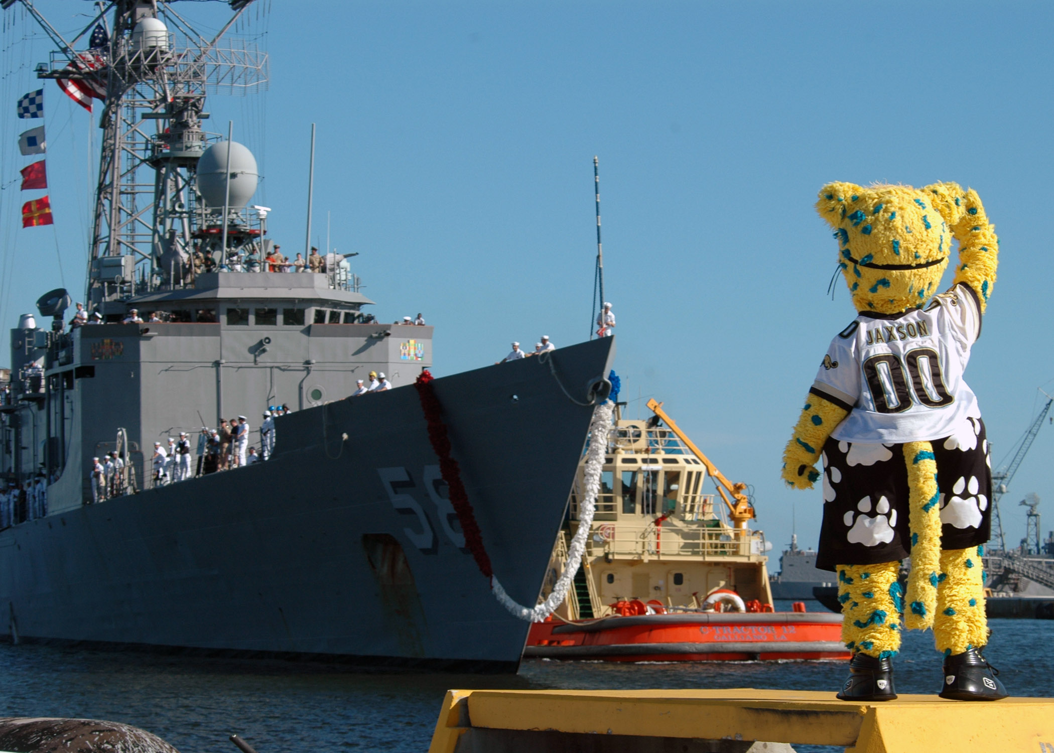 MAYPORT, Fla. (Sept. 26, 2007) - Jacksonville Jaguars mascot Jaxon Deville salutes Sailors aboard guided-missile frigate USS Samuel B. Roberts (FFG 58) as the ship returns to Naval Station Mayport. Roberts deployed in support of Partnership of Americas, which took the ship as far as the southernmost part of South America as the ships participated in numerous multi-national exercises. U.S. Navy photo by Mass Communication Specialist 2nd Class Leah Stiles (RELEASED)